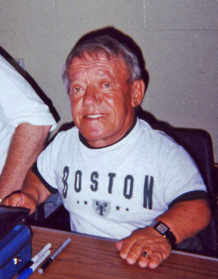 Kenneth George "Kenny" Baker, best known as the man inside the R2-D2 costume in the original Star Wars films, at a science fiction convention in February 2005.